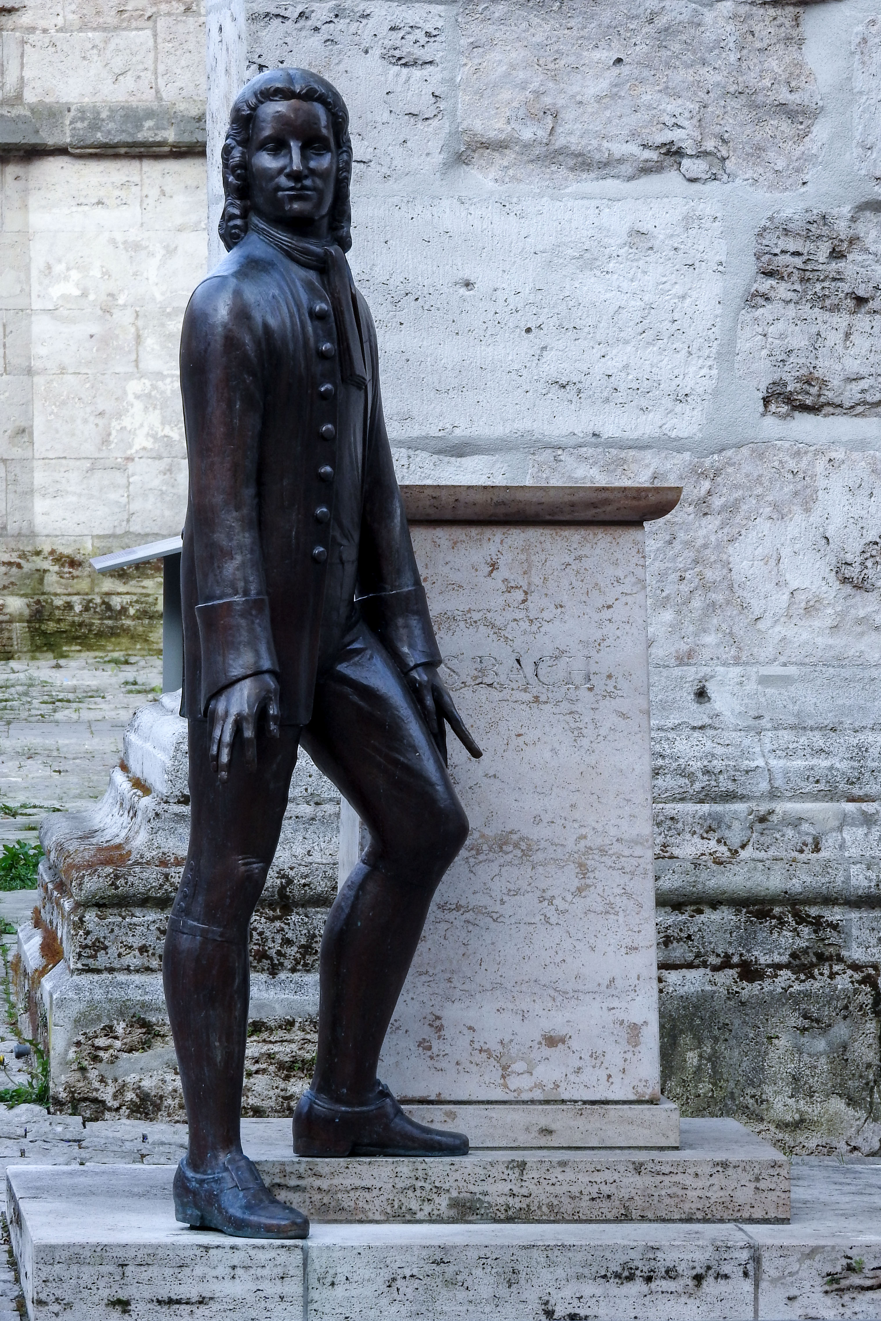 Bach statue in Mühlhausen, Thuringia, Germany